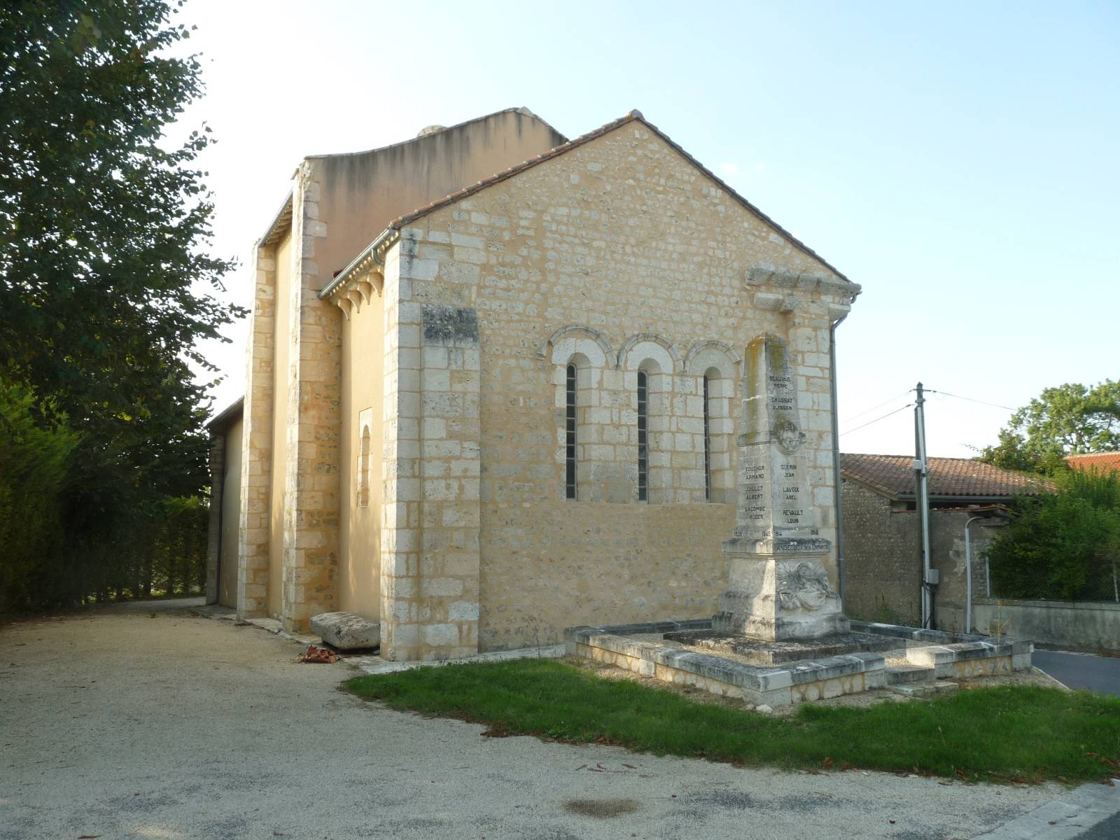 church of Angeduc, Charente, SW France